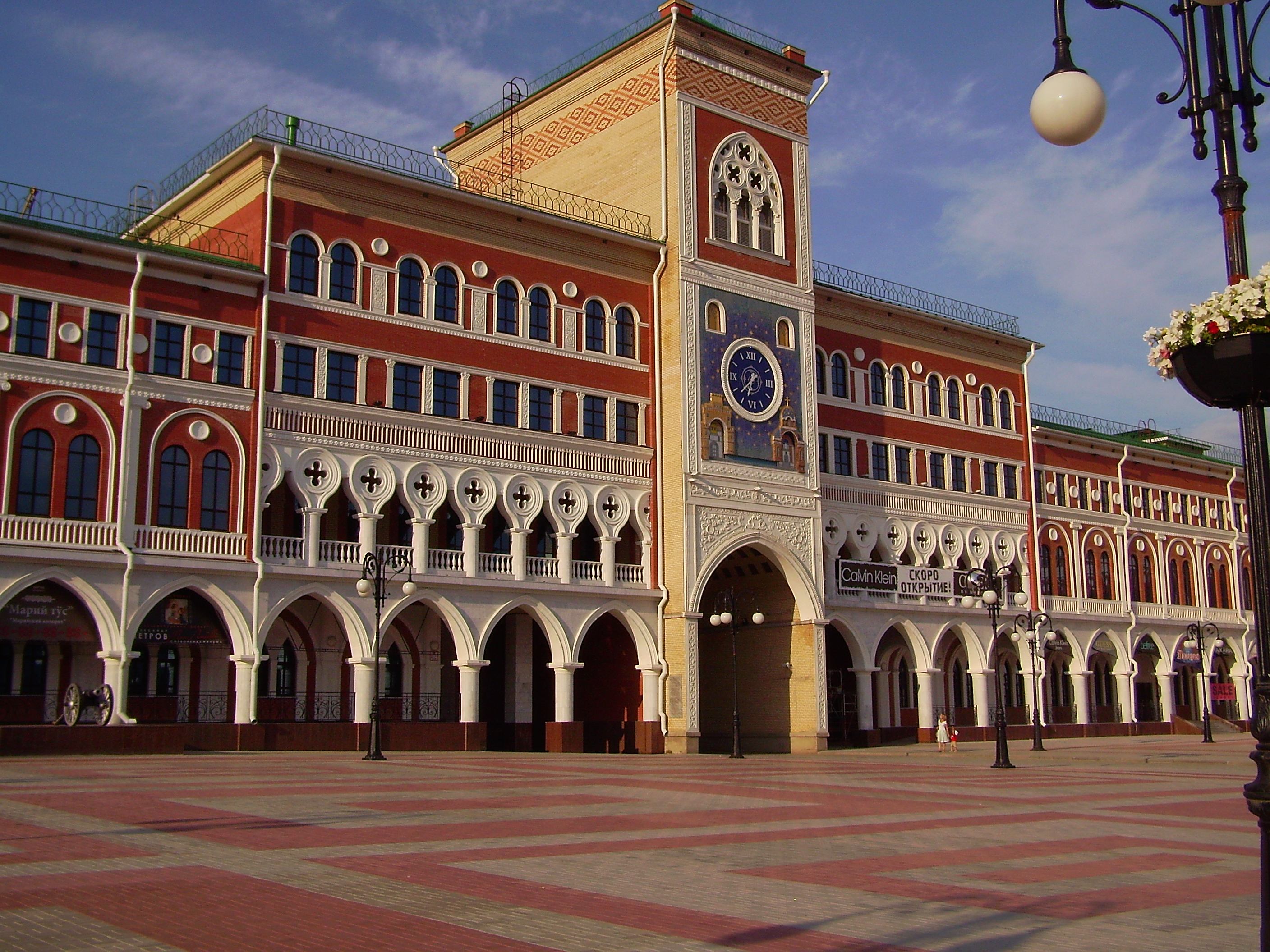 Building of national art gallery